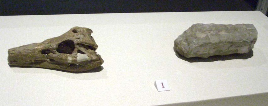 Hsisosuchus chungkingensis skeleton displayed in Hong Kong Science Museum